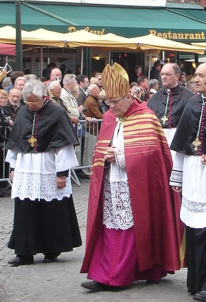 HE Mgr Vangheluwe, canon Herman Vandecasteele,(left), canon Filip Debruyne (C) and canon Wilfried Dumon